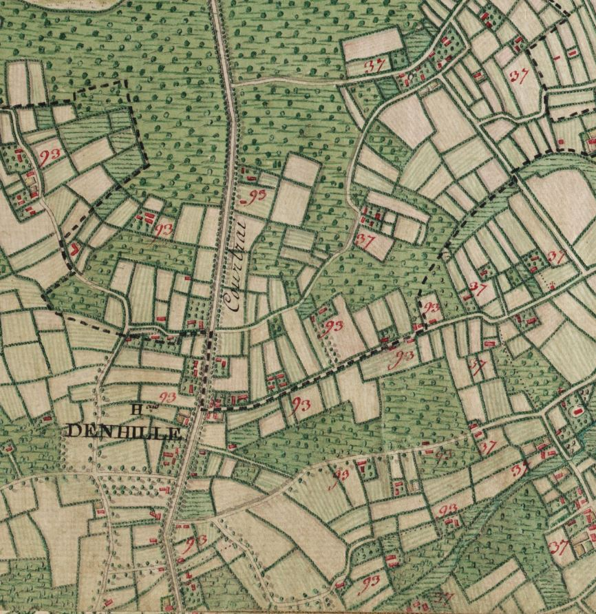 'Den Hille' op de Ferrariskaart, 1771-1779